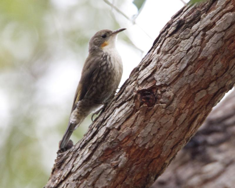 White-throated Treecreeper (Cormobates leucophaea) female